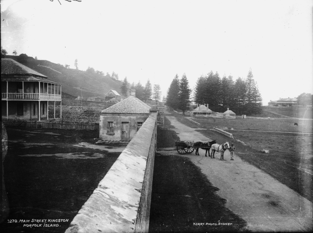 Format: Glass plate negative. Repository: Tyrrell Photographic Collection, Powerhouse Museum Part Of: Powerhouse Museum Collection General information about the Powerhouse Museum Collection is available at Persistent URL: Acquisition credit line: Gift of Australian Consolidated Press under the Taxation Incentives for the Arts Scheme, 1985